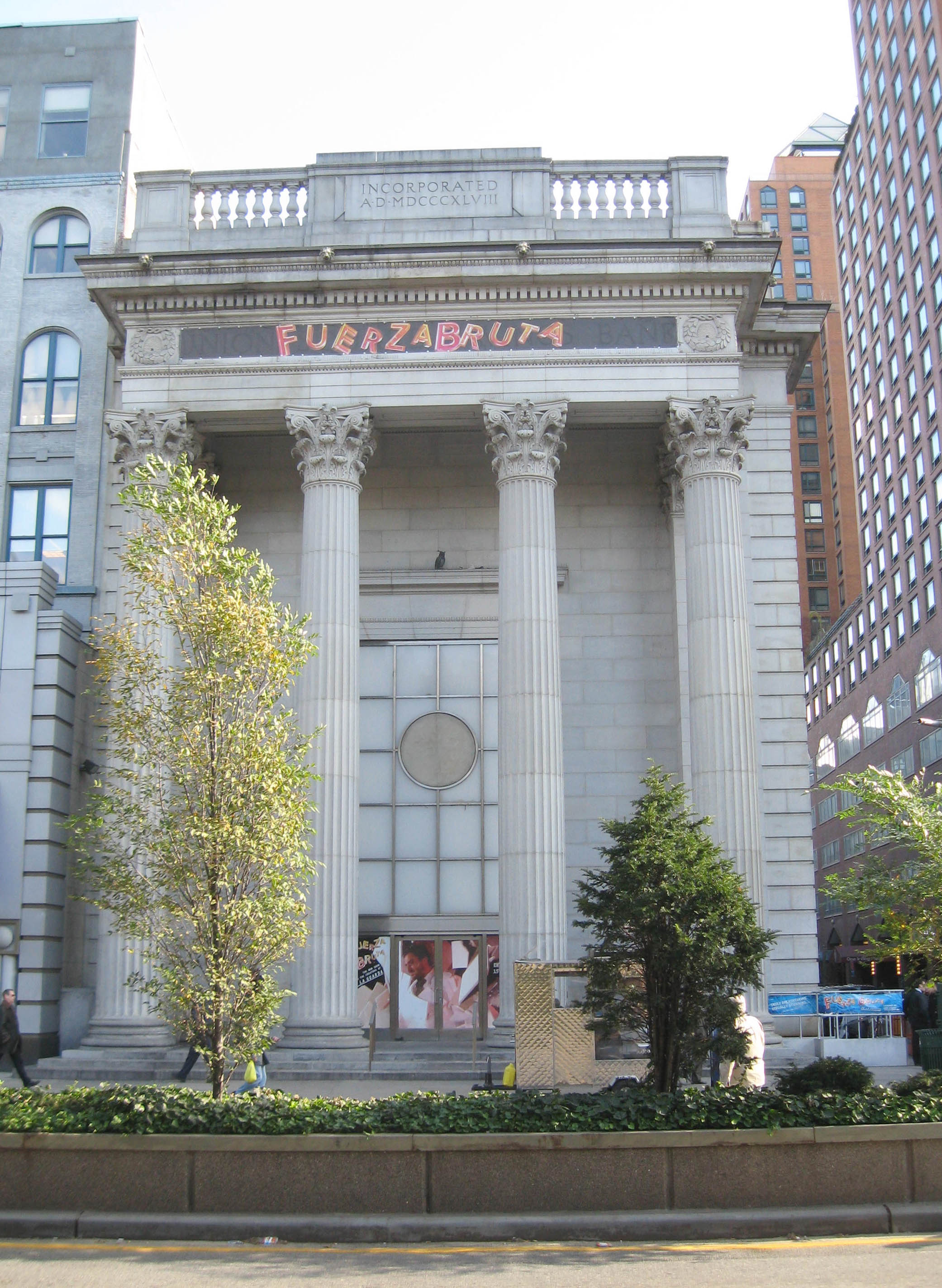 Looking east across Park Avenue at former Union Square Savings Bank building, now a theater, on a sunny early afternoon. NYCLPC designation 1996. See also Image:Union Square Savings Bank sign jeh.JPG